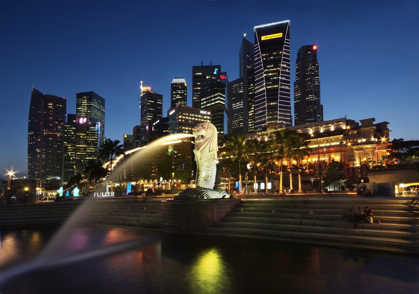 The Merlion is still the main attraction for visitors to Singapore. A must see for visitors cruising by this tiny island. Best to view on BLACK Not a HDR process. Just blending with 2 bracketed exposures and tune to satisfaction using CS3.